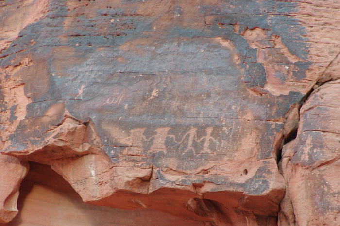 Petroglyphs in desert varnish at Valley of Fire State Park; Area shown in picture is about 1 meter across.